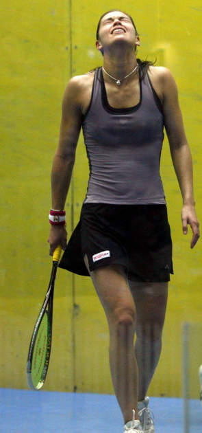 Shelley Kitchen of New Zealand reacts after losing the final point to Nicol David during the 2007 CIMB Malaysian Open.